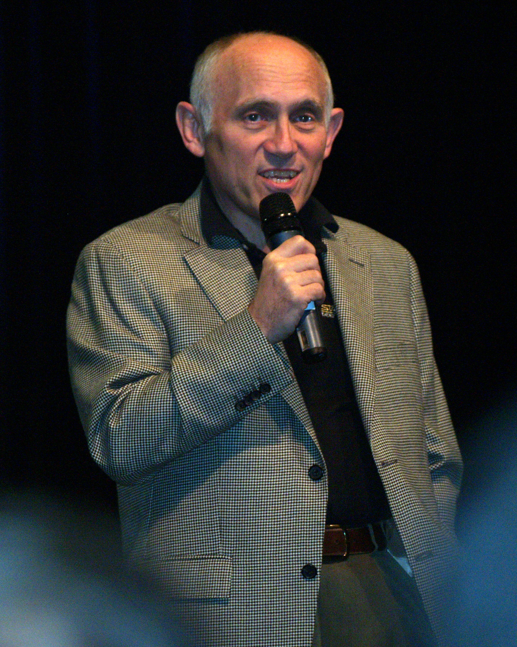 Armin Shimerman at the Star Trek convention in Las Vegas in 2008.